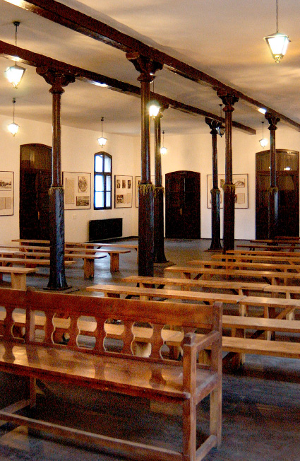 SalaStareSkupstine